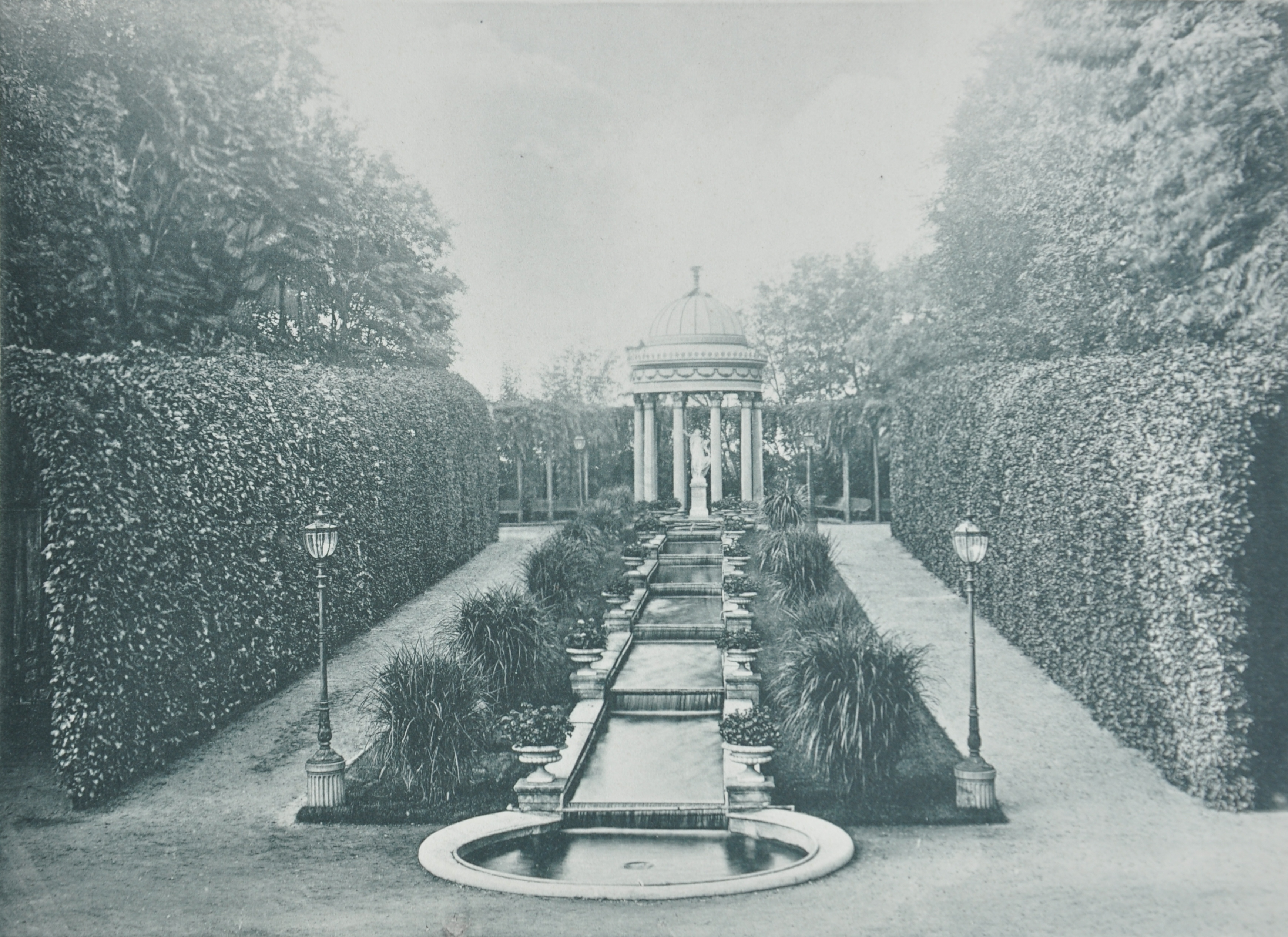 Plate 24. Die Flora. Cascaden from Koeln in Bildern (Cologne in pictures), Paul Neubner, Cologne 1896.